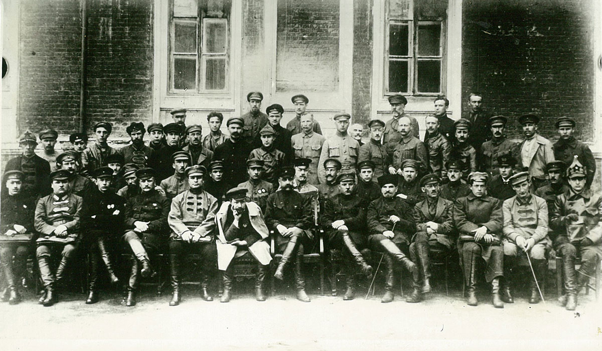 Participants of the meeting the commanders of military districts. 1922